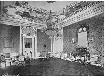 The first salon of the royal suite in the Royal Castle of Budapest.